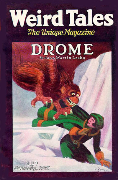 Cover of the pulp magazine Weird Tales (Jan 1927, vol. 9, no. 1) featuring Drome by John Martin Leahy.